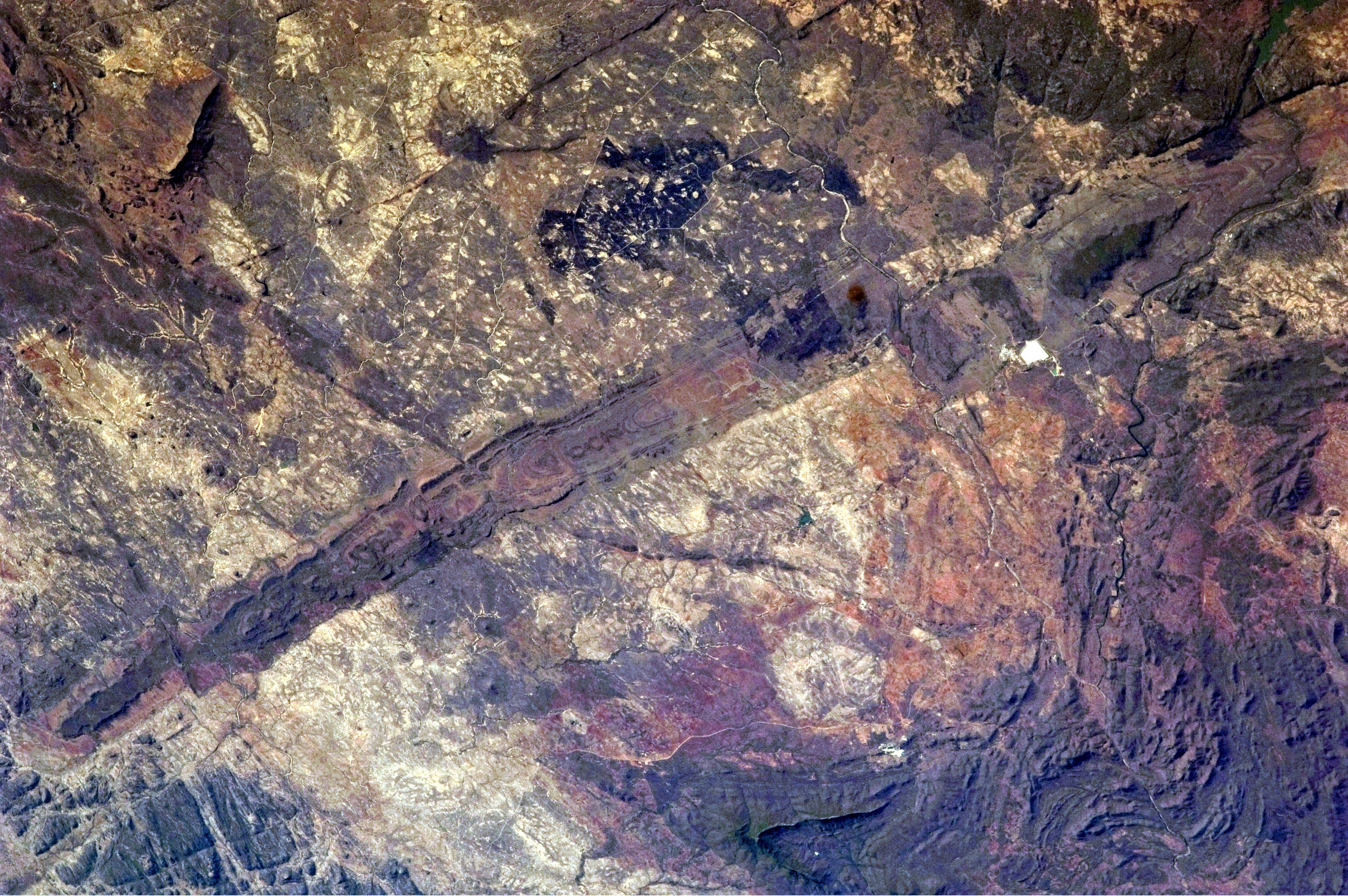 The Great Dyke of Zimbabwe. Although originally named as a dyke (The Great Dyke of Rhodesia) when first studied by geologists in the 19th century, it is now known to be a layered lopolith, not a dyke. The southern end of the dyke is captured in this photograph taken by astronauts. Two large burn scars from fires are visible at image top centre. North is to the right.